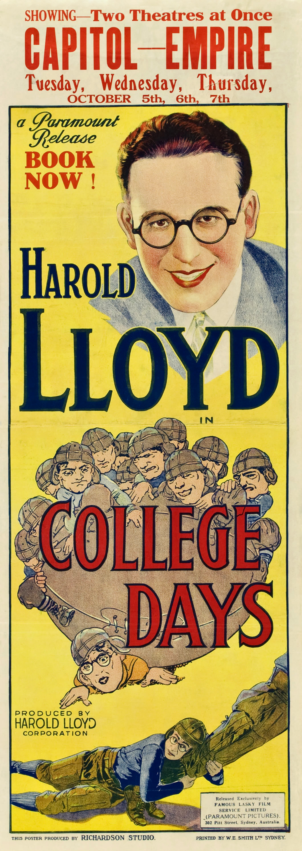 Film poster for the 1925 Harold Lloyd vehicle The Freshman